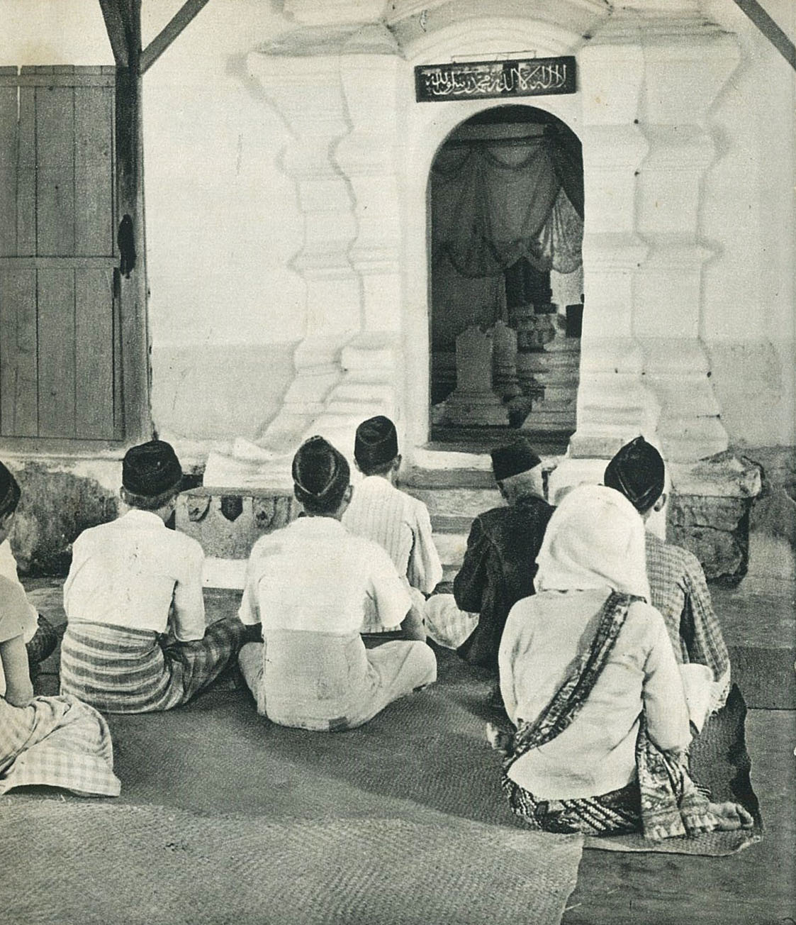 Grave of Maulana Hasanuddin